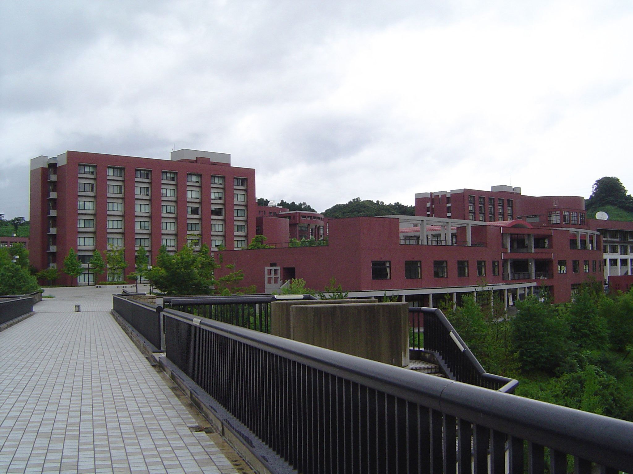 Kanazawa Univ. Kakuma Campus (North)